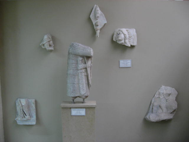 Relief fragments framed by pilasters, outer face of lateral archway of the Golden Gate. Reused elements, marble. Yedikule, museum excavations 1927. Inv. 4213 T, 4214 T, 4215 T, 4218 T, 4219 T.